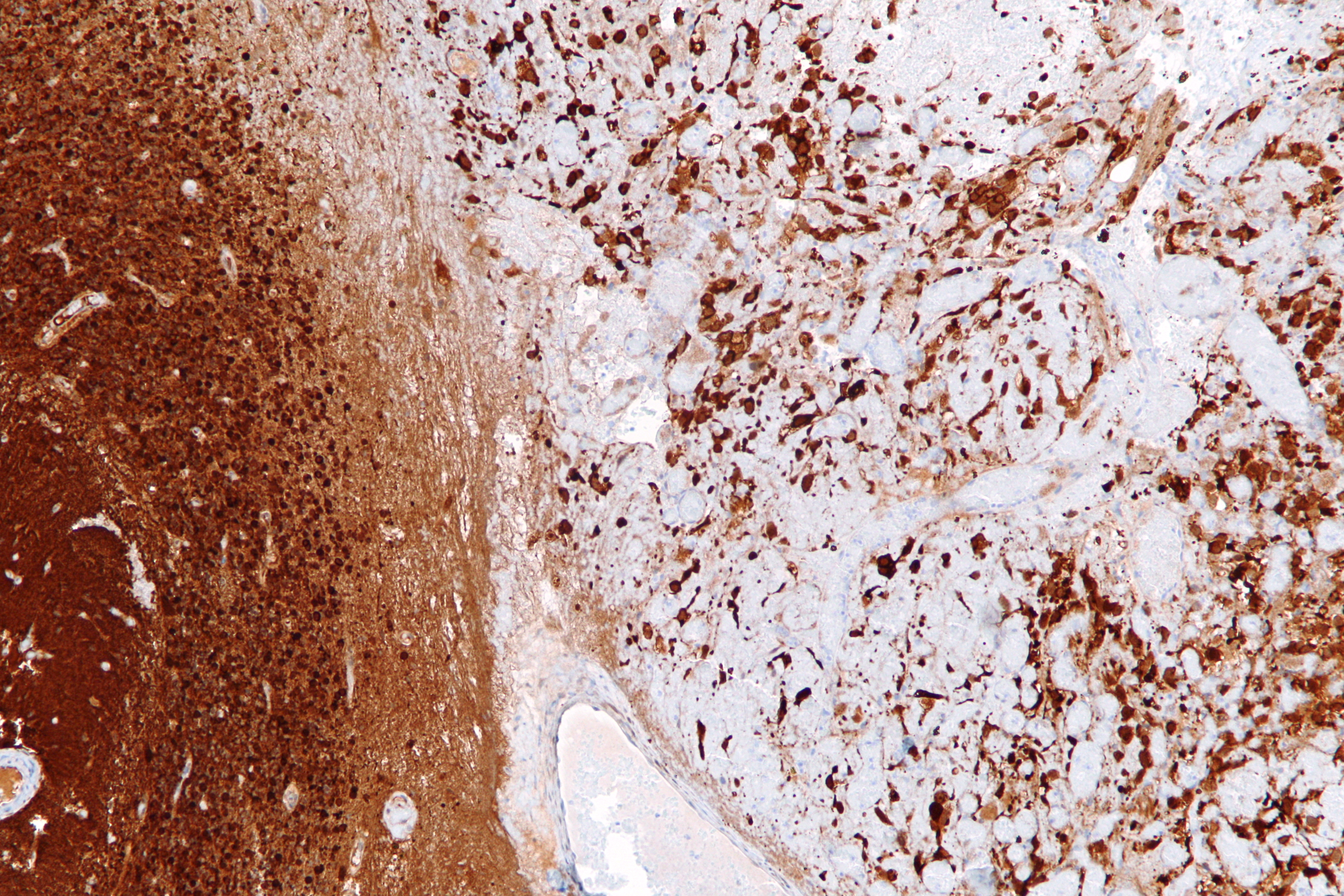 Intermediate magnification micrograph of a hemangioblastoma. NSE immunostain. Related images Intermed. mag. High mag.